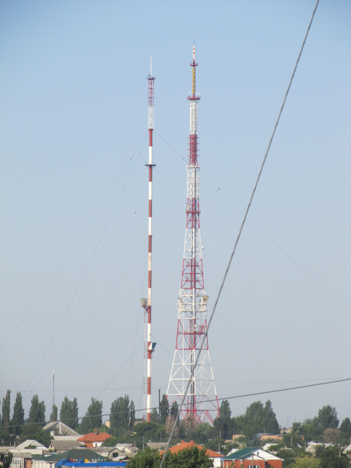 TV Tower (Melitopol, Zaporizhia Oblast, Ukraine).